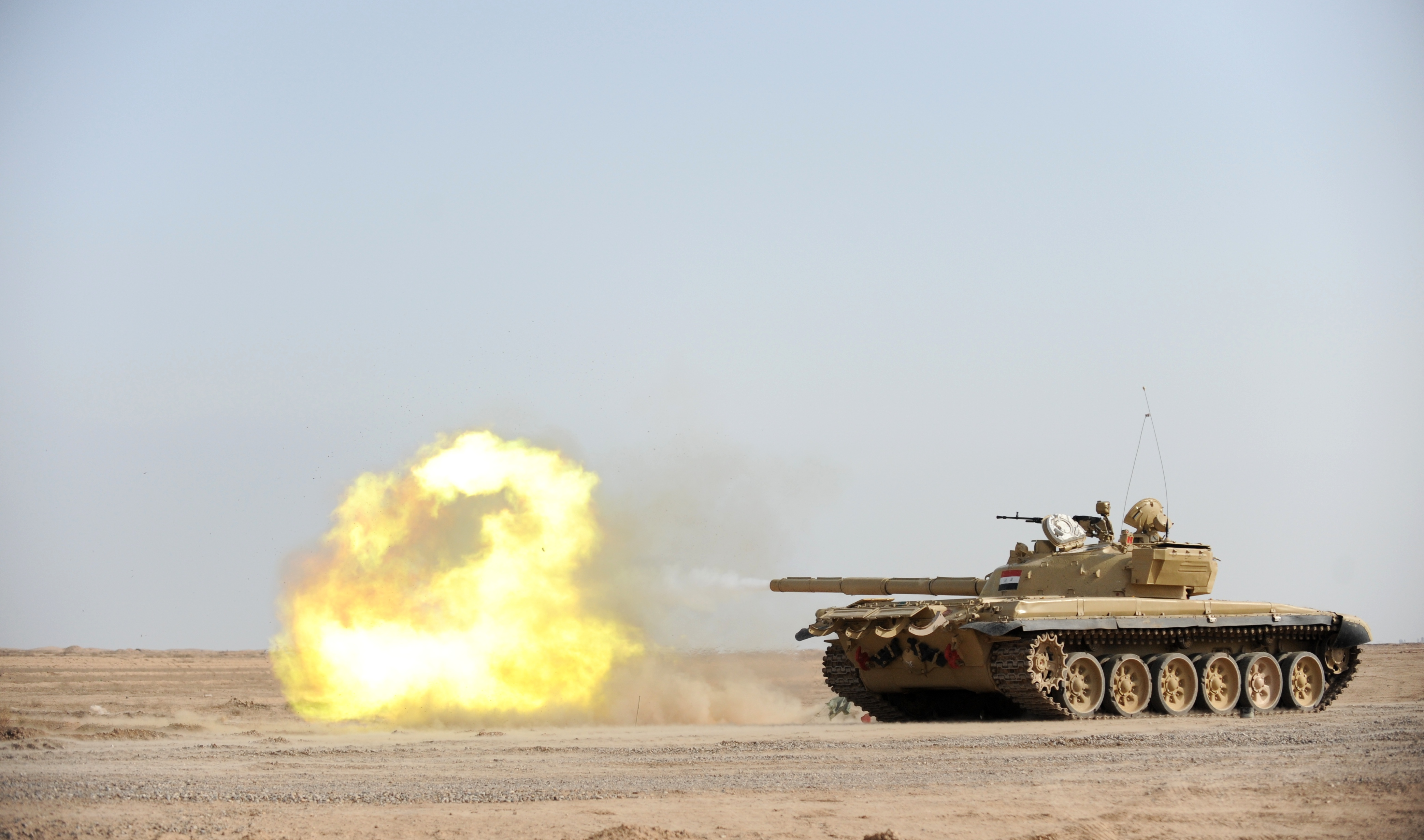 An Iraqi T-72 tank fires, during a live fire training exercise, at the Besmaya Gunnery Range, in Besmaya, near Baghdad.